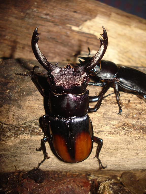 A pair of Hexarthrius parry. The male is 70mm long.